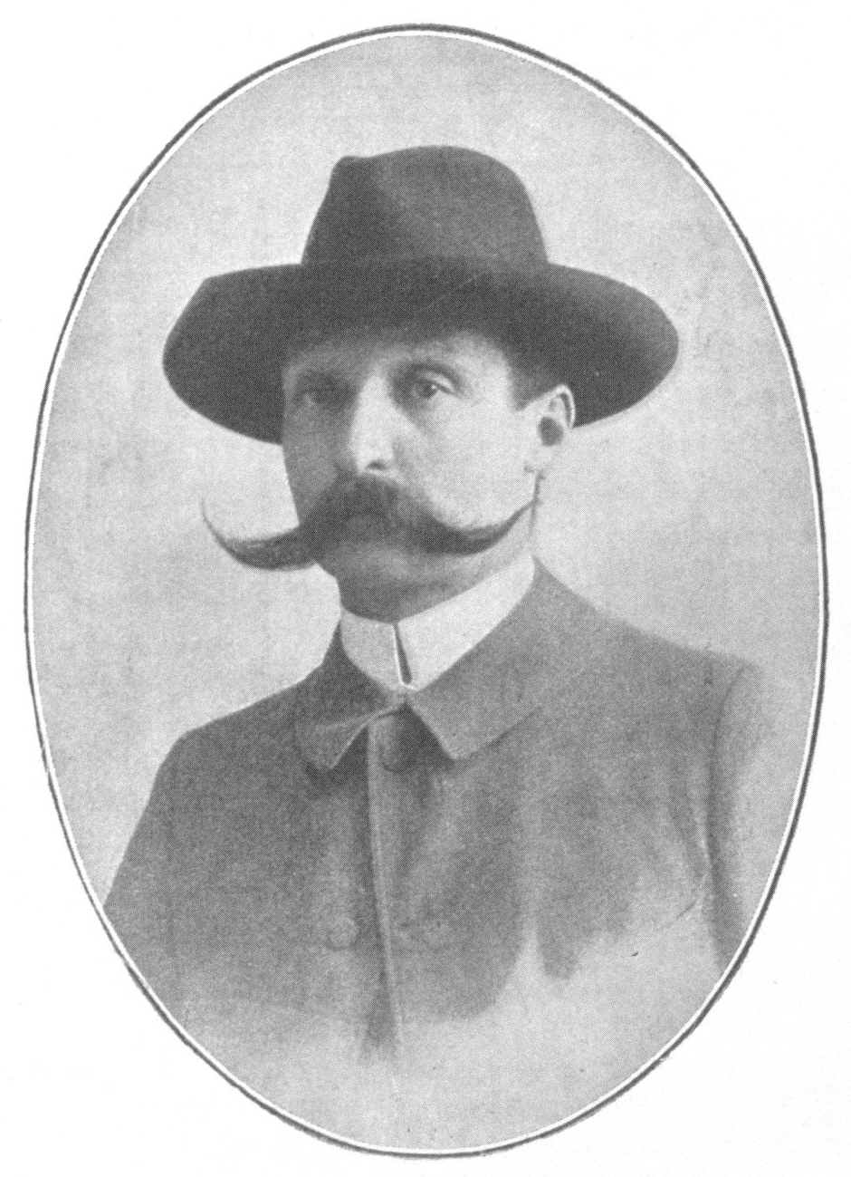 Hans von Kadich (1864–1909), Austrian scientist and writer.